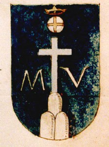 Escudo de la Orden de Montevergine, dibujado en 1605 en Insegne di varii prencipi et case illustri d'Italia e altre provincie (Módena, 1605) Date Source